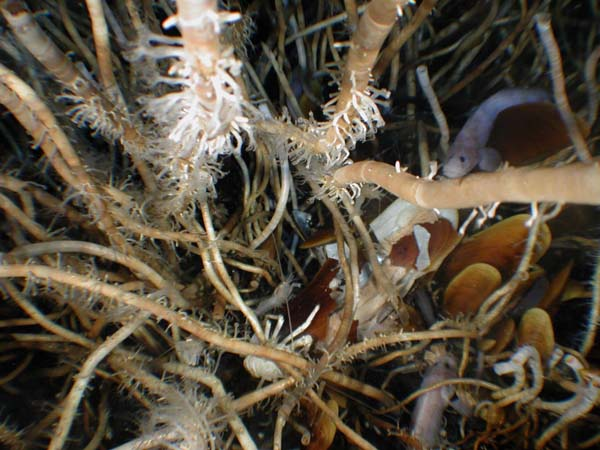 Tubeworms, soft corals and chemosynthetic mussels at a seep located 3,000 metres down on the Florida Escarpment. Eelpouts, a Galatheid crab and an alvinocarid shrimp feed on mussels damaged during a sampling exercise. Image from NOAA Ocean Explorer.